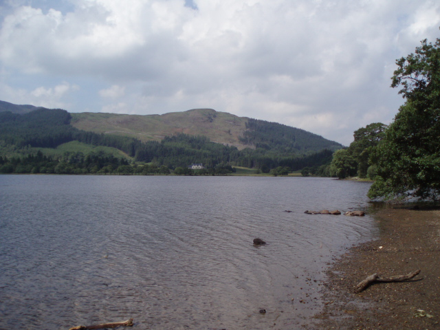 Frenich. Northern end of Loch Chon looking towards Fenichr